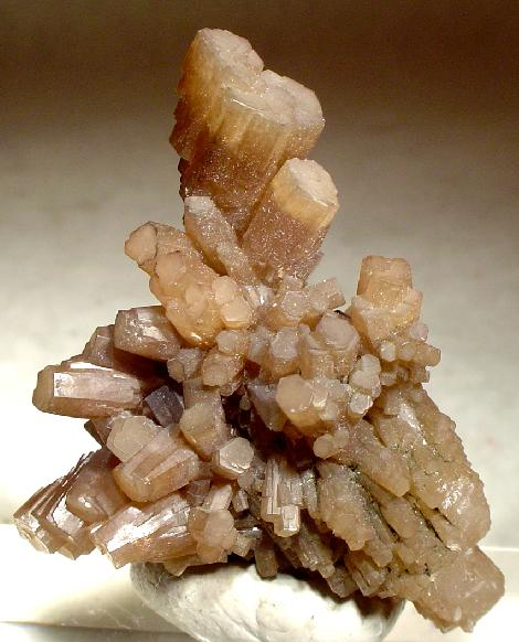 Pyromorphite Locality: Friedrichssegen Mine, Frücht, Bad Ems District, Lahn valley, Rhineland-Palatinate, Germany (Locality at ) A VERY AESTHETIC cluster of translucent and lustrous brown pyromorphite barrels to 1.4 cm from Germany. This is classic Ems District pyromorphite. A bit of periphery damage on the right side of the specimen is not noticeable in the favored viewing direction.This is classic old material and a fin eminiature like this is usually quite expensive. 4.1 x 3.6 x 2.6 cm